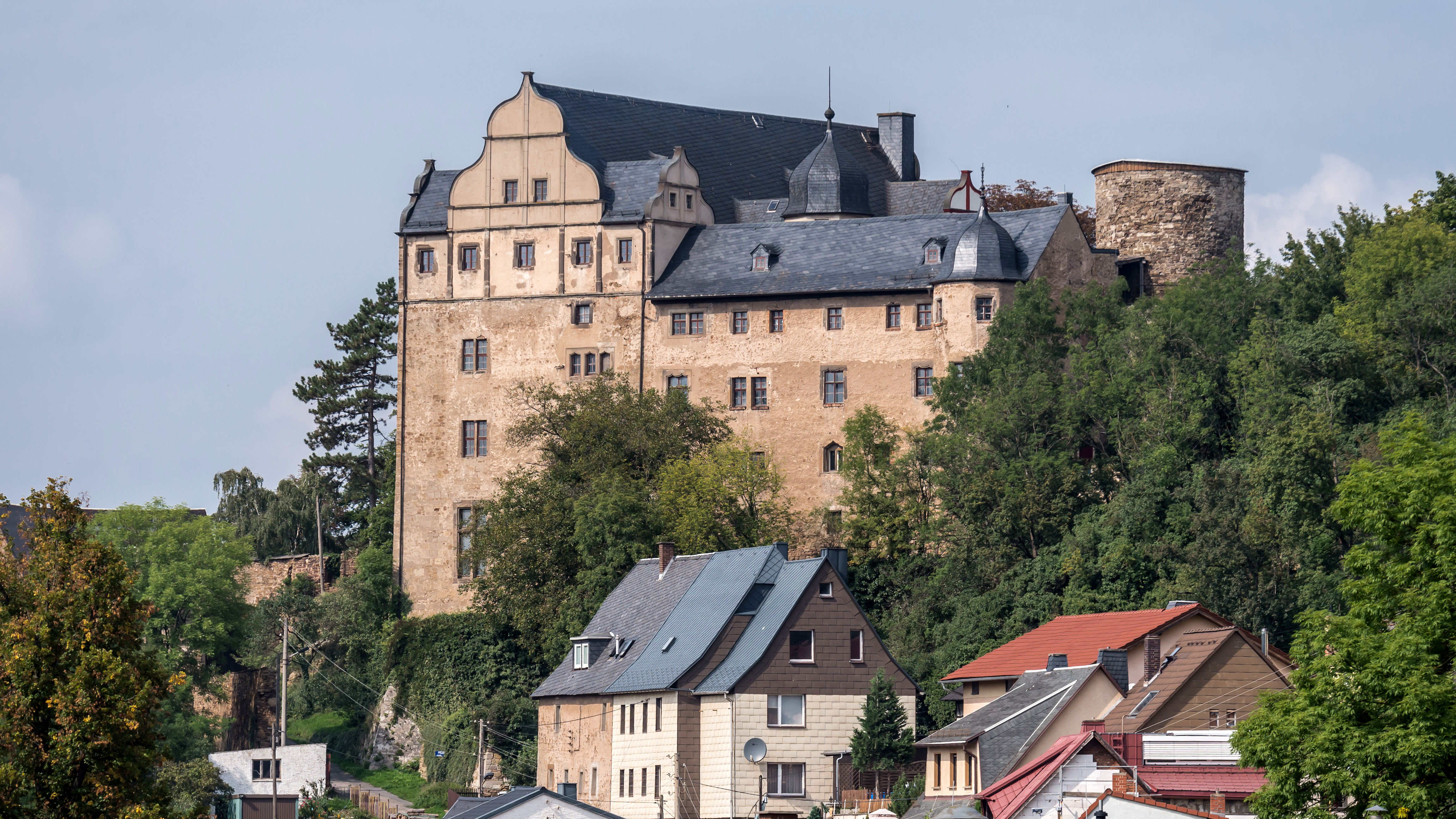 Könitz Am Schloßberg 16 Burg (Schloss) mit Nebengebäuden, Befestigung und Grundstück (Park)